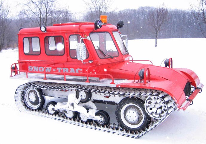 1972 Aktiv Snow Trac ST4 dual tracked snowcat. This unit was featured on the British TV show "Salvage Squad".